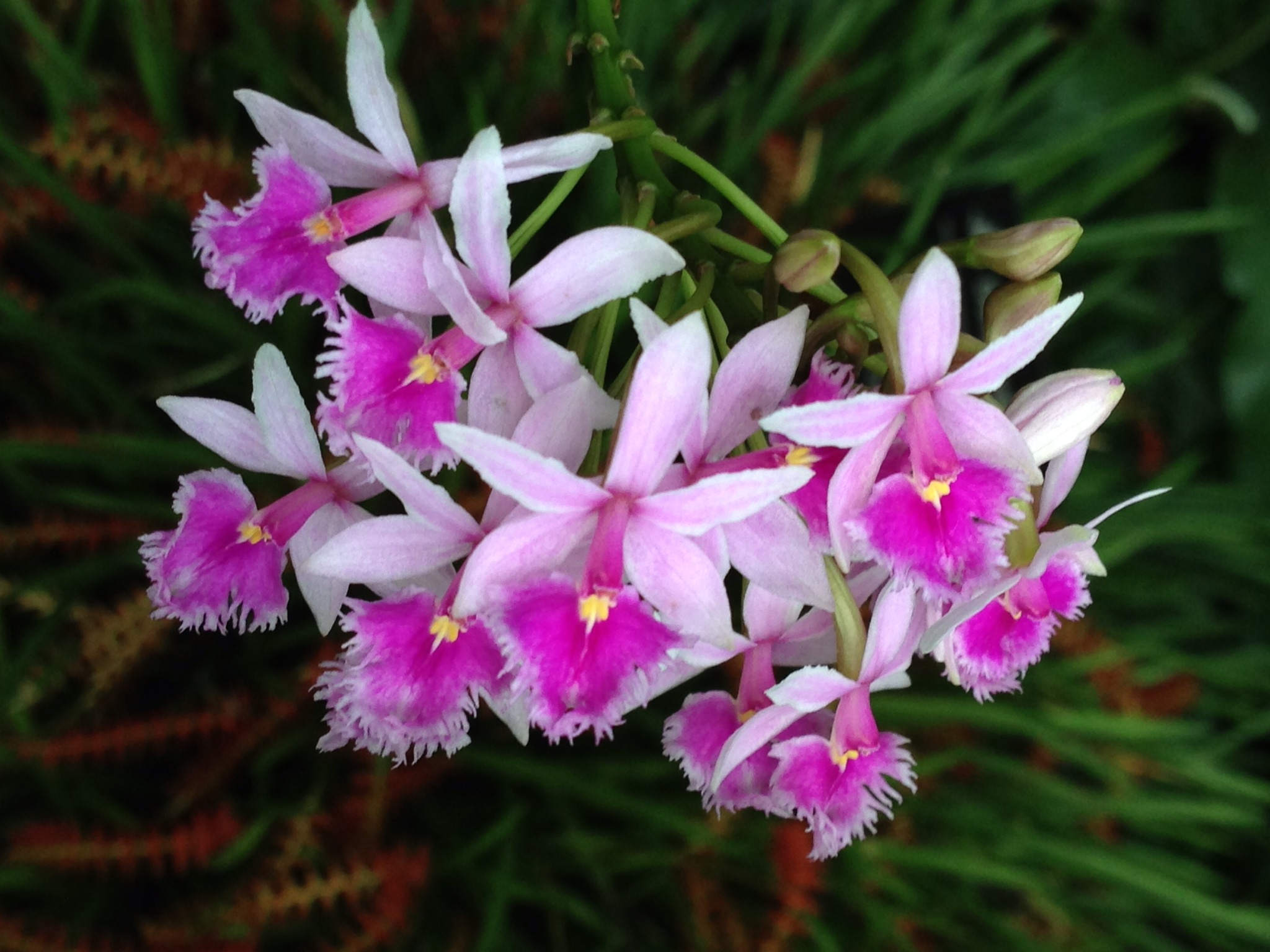 Epidendrum calanthum taken at Olbrich Botanical Gardens, Madison, WI.